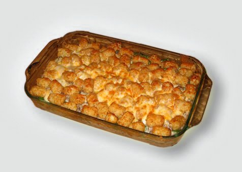 A picture of a delicious tater-tot hotdish